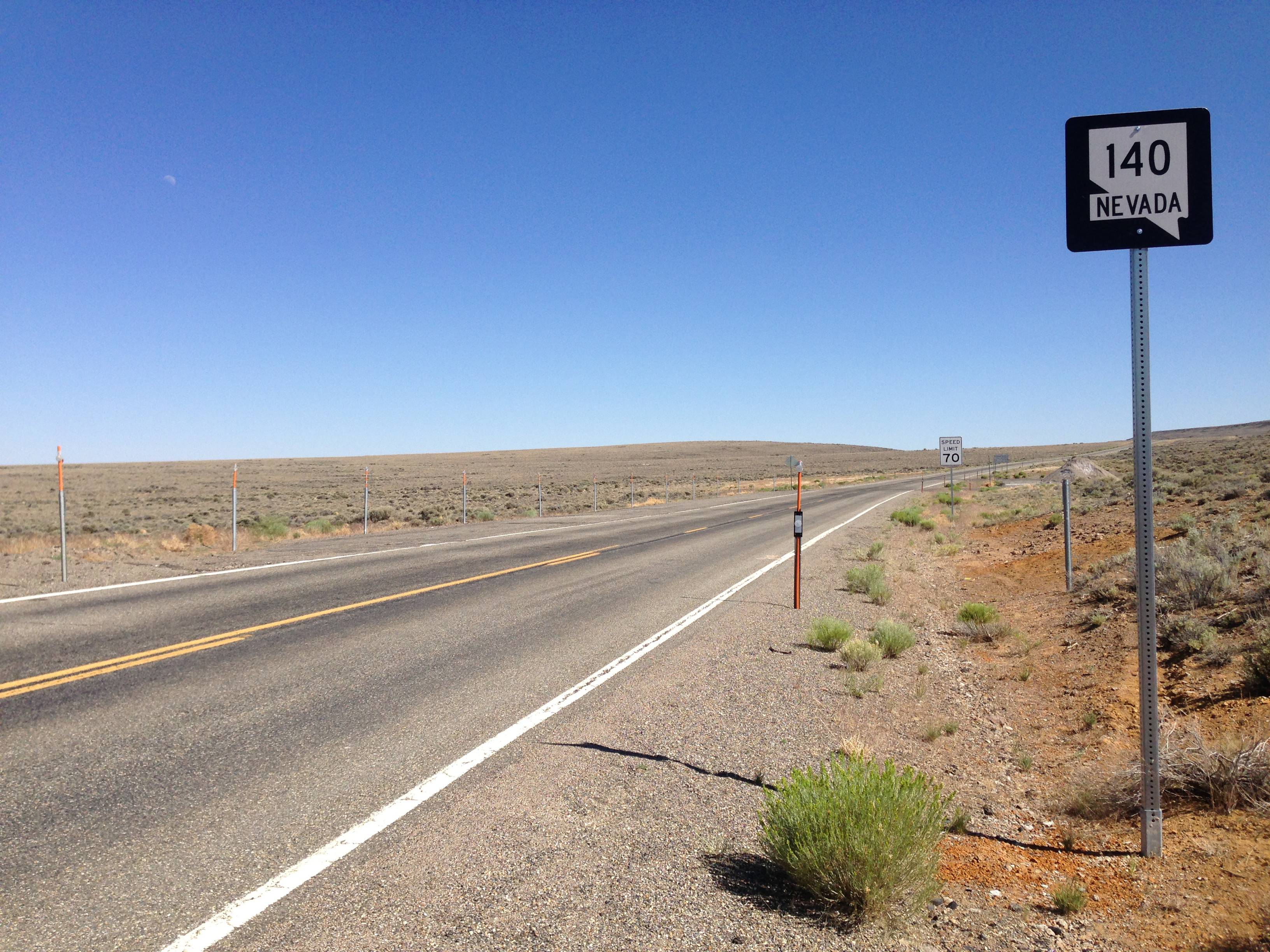 First reassurance sign along eastbound Nevada State Route 140 (Adel Road) about 0.1 miles east of the Oregon border in the Sheldon National Wildlife Refuge, Nevada